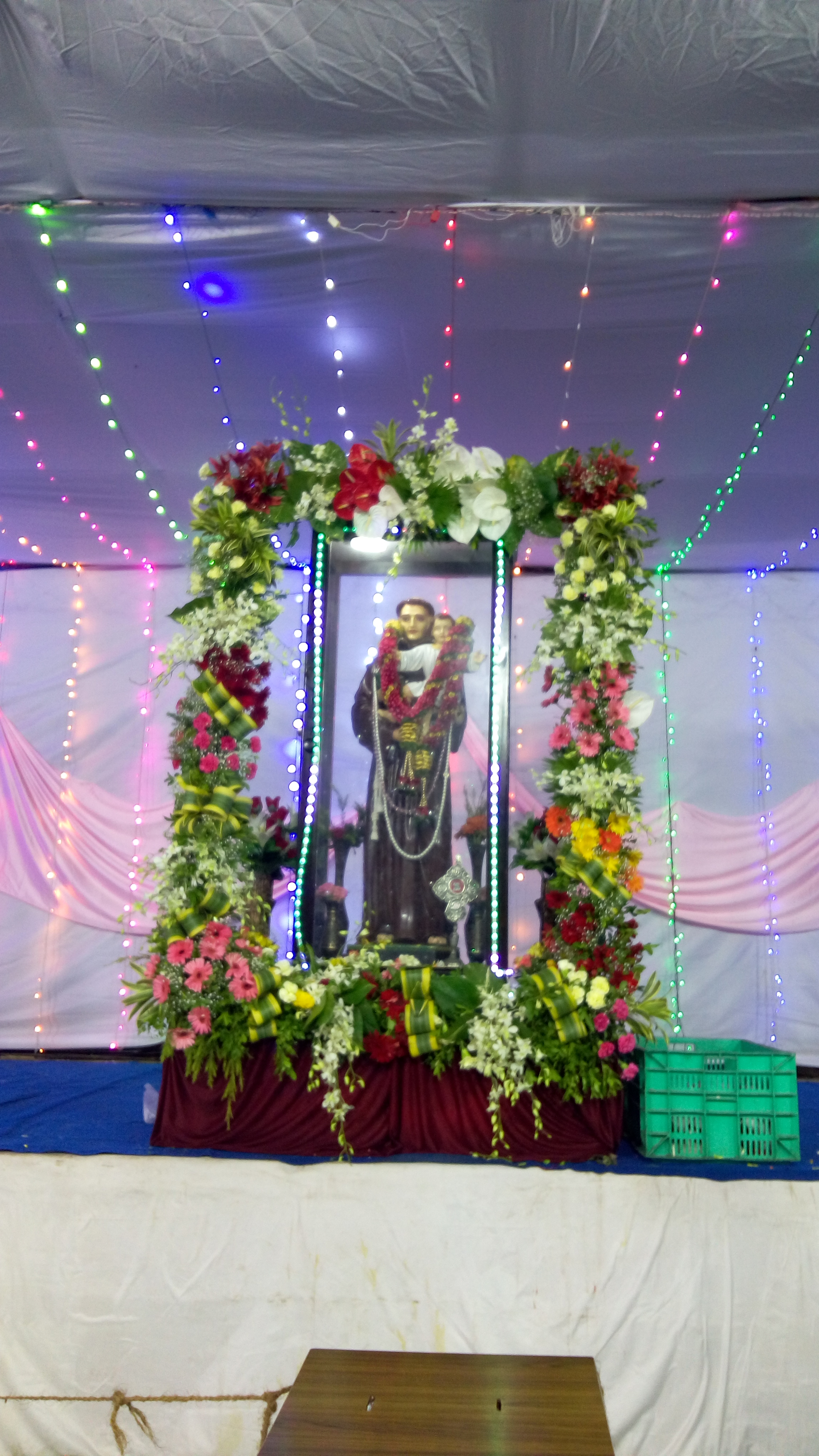 This is the statue of St. Anthony of Padua during its annual feast in our lady of good counsil church and St. Anthony church, Sion, Mumbai